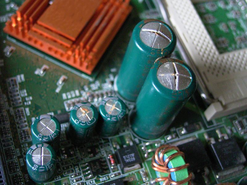 Defect caused by the use of unsuitable electrolytic capacitors with too high ESR in the switched-mode power supply on a PC motherboard. Note: the ends and sides are swollen on the defective capacitors.